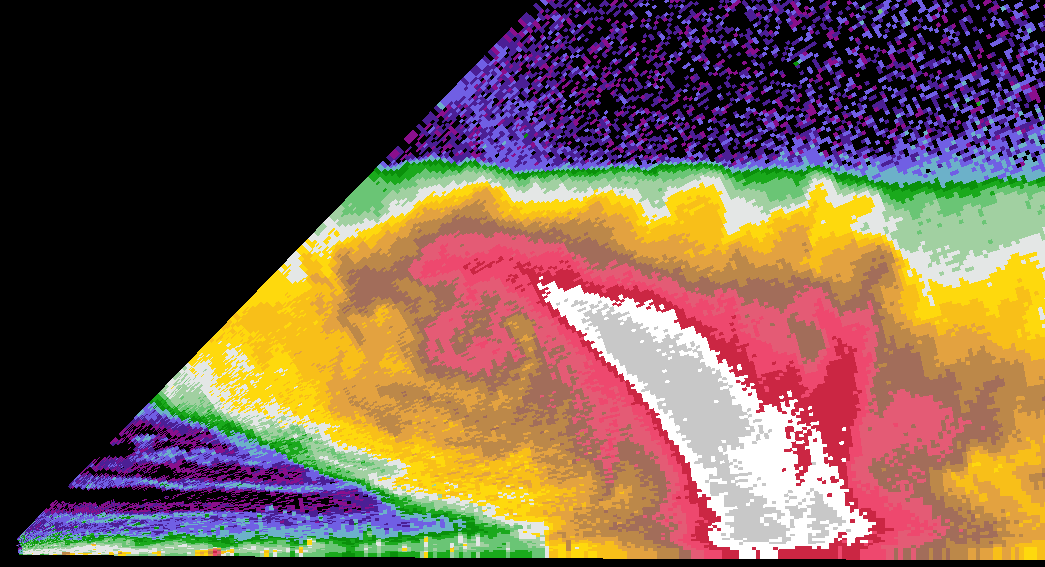 RHI reflectivities from a research radar in Colorado sampling a visibly tilted updraft (radar echoes forming a slope from right to left) and bounded weak echo region or BWER (the weaker echoes in yellow surrouded by red echoes on the upper left of the storm.